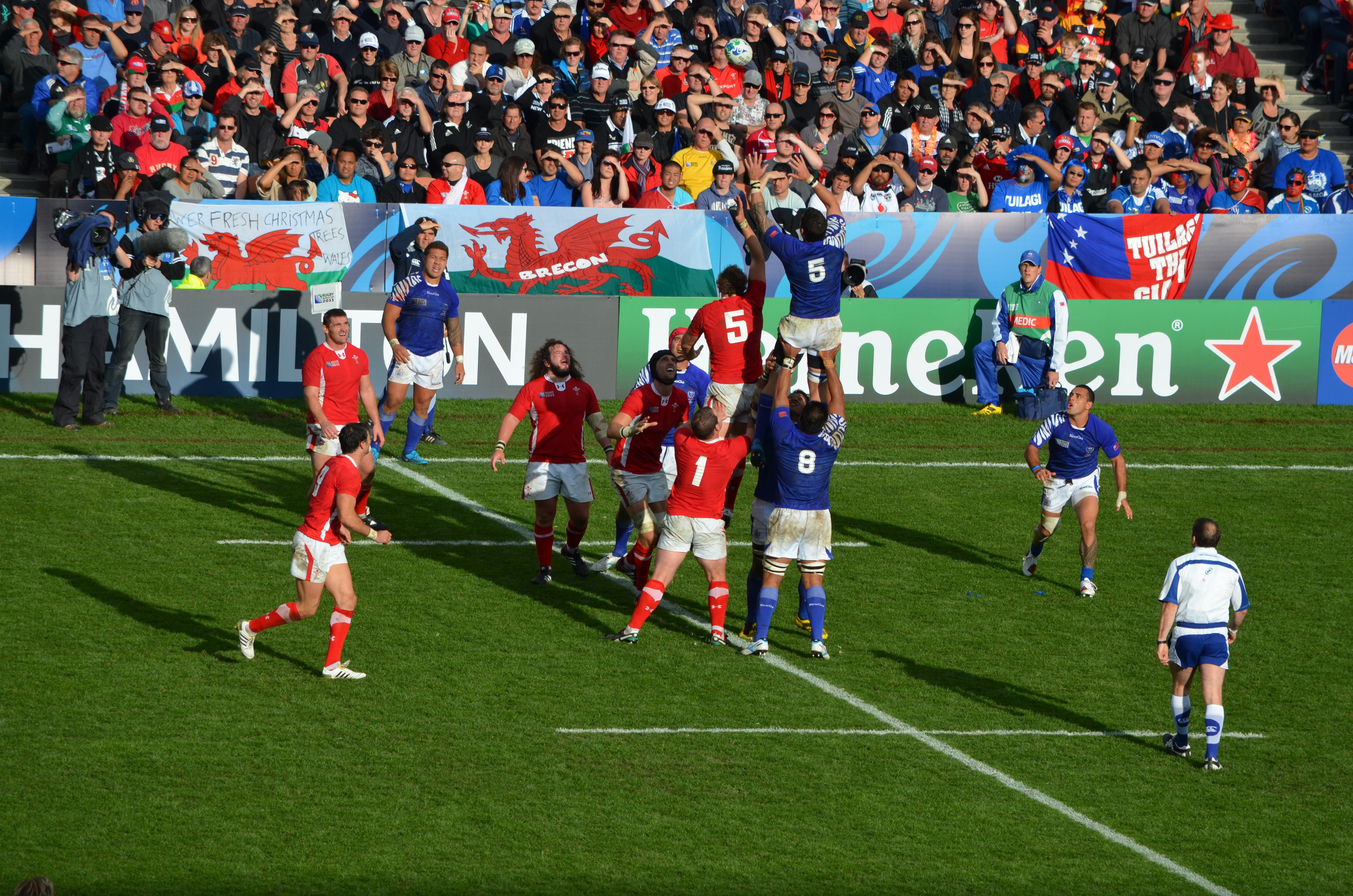 Match between Wales and Samoa during 2011 Rugby World Cup in New Zealand.